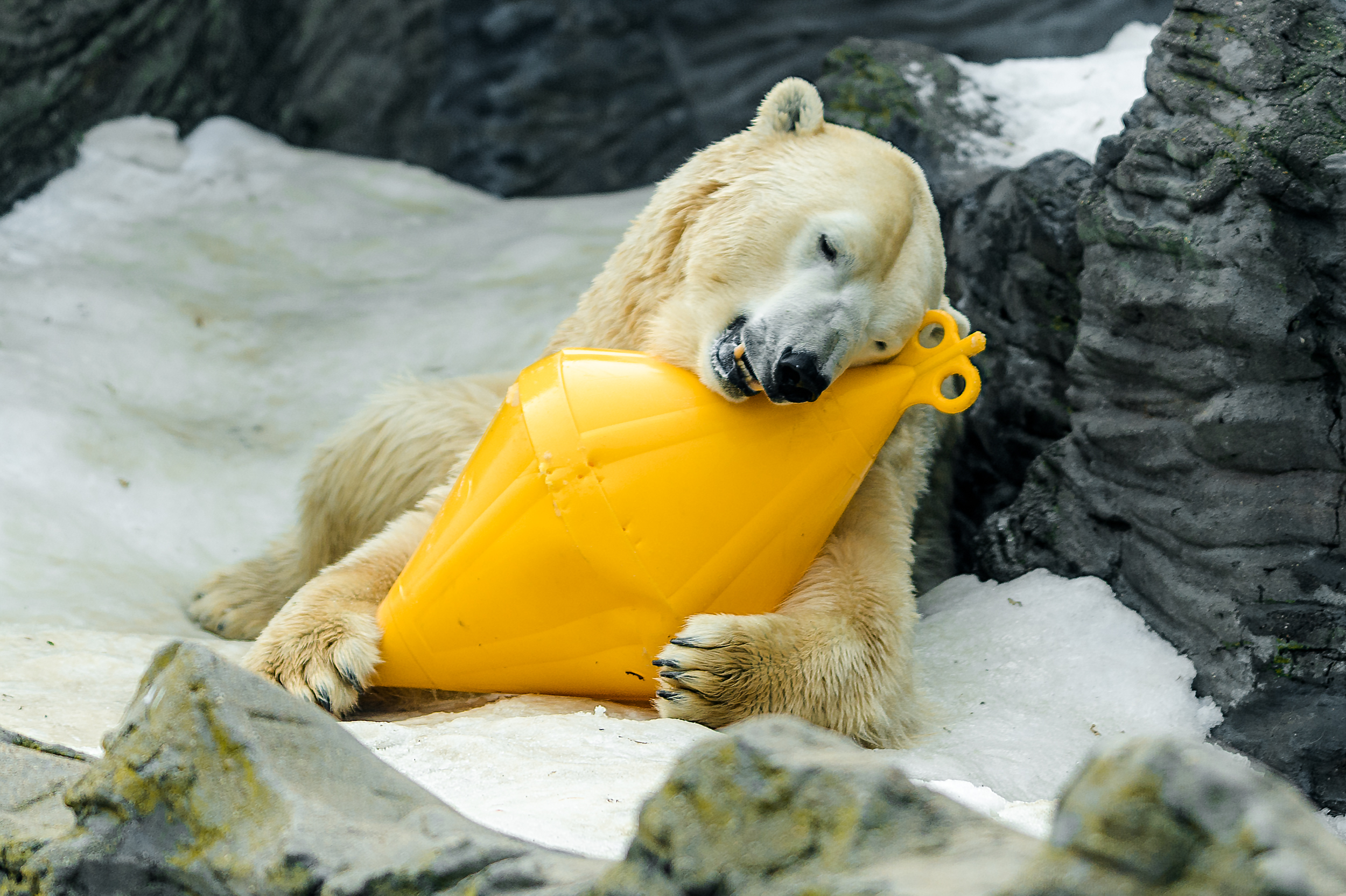 Polar bear, enrichment, Prague Zoo